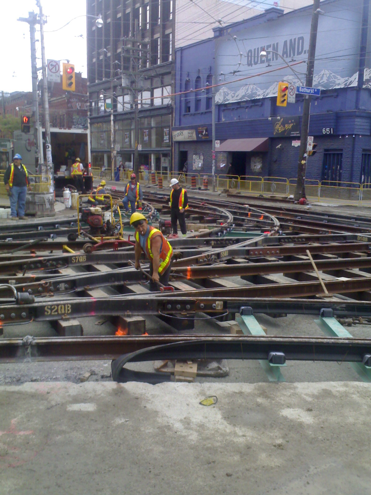 Repairs to streecar tracks at Bathurst Street and Queen Street West, Toronto, Canada.